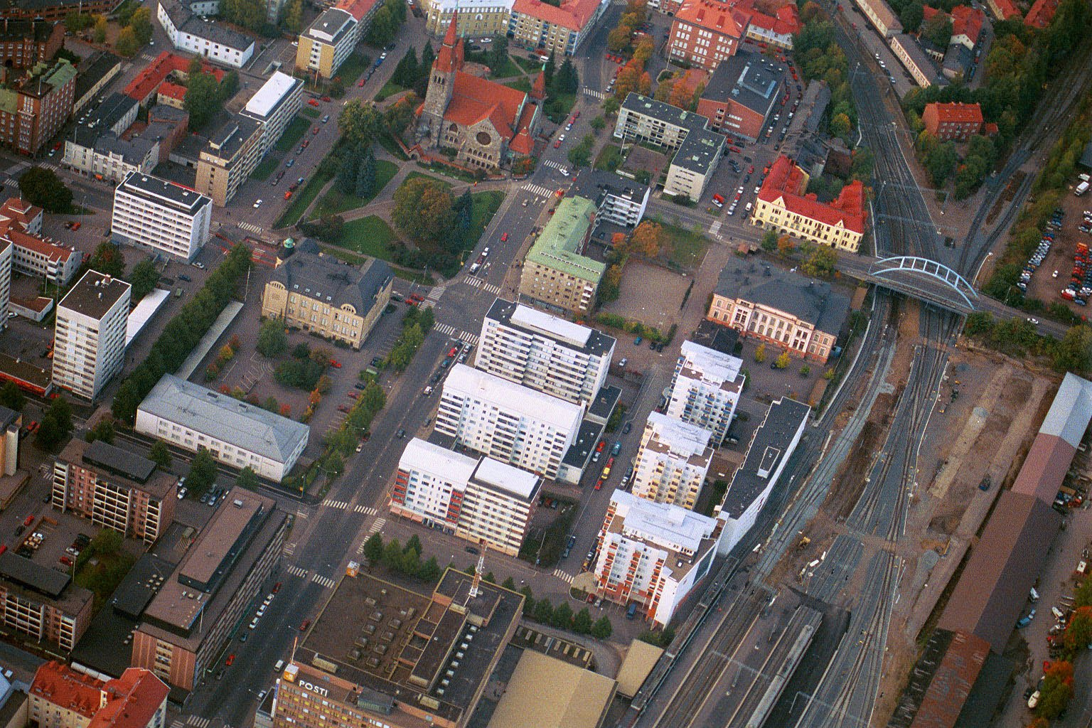 Tampere, Finland from air